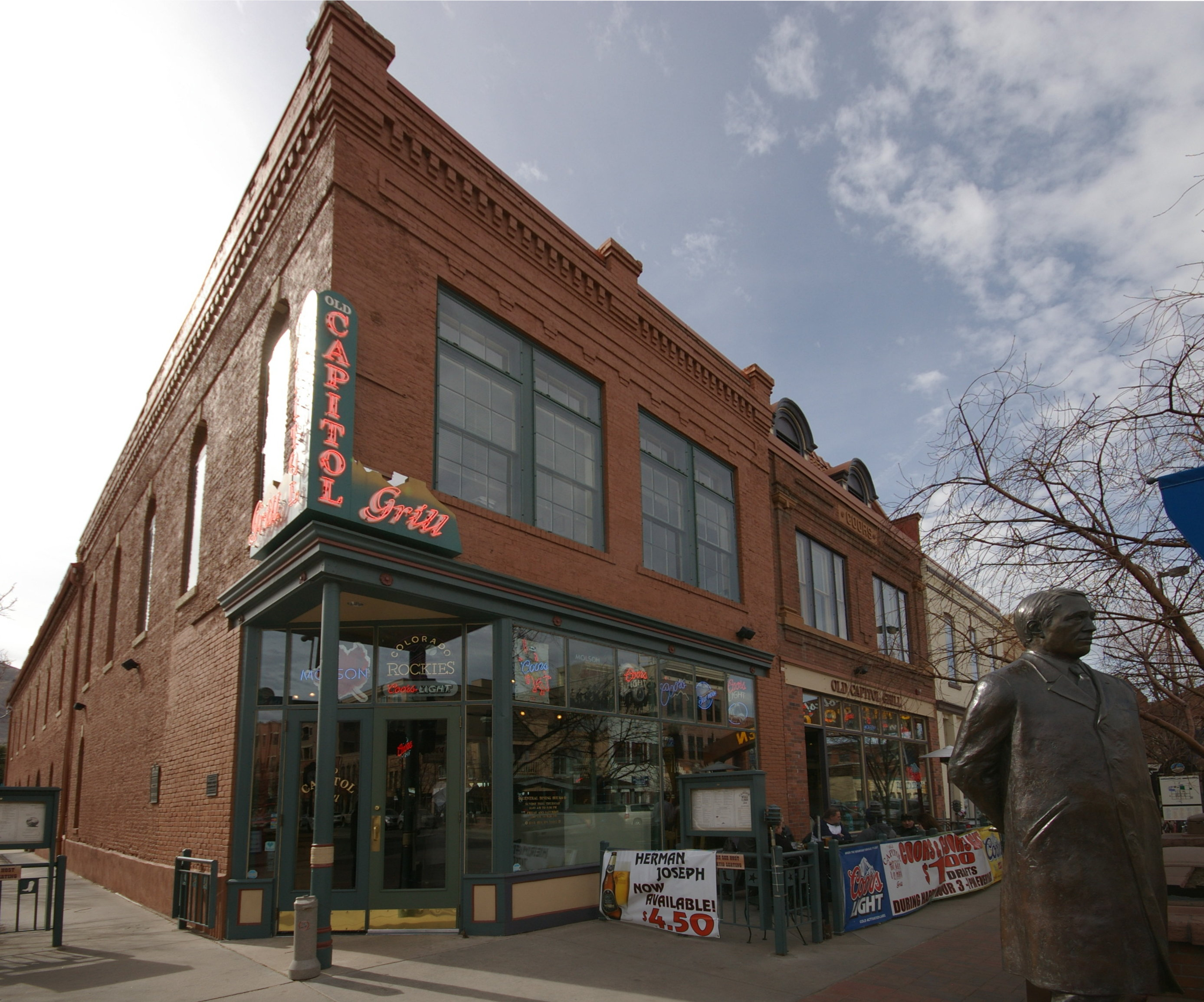 The Loveland Building and Coors Building in Golden, CO. This building once served as the Territorial capitol building of Colorado.